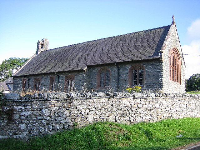 Church, Ystrad Meurig. The church is at the centre of this tiny community.